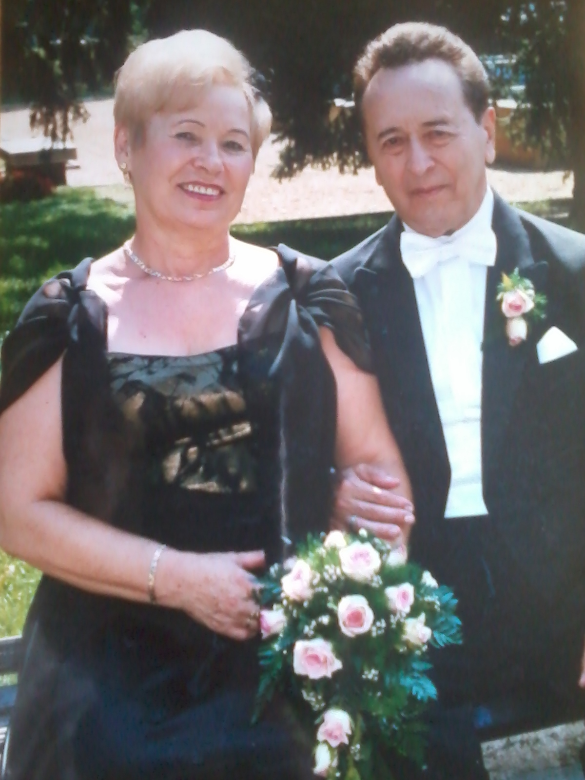 D. Lehota and his wife, Erzsébet Lehota.